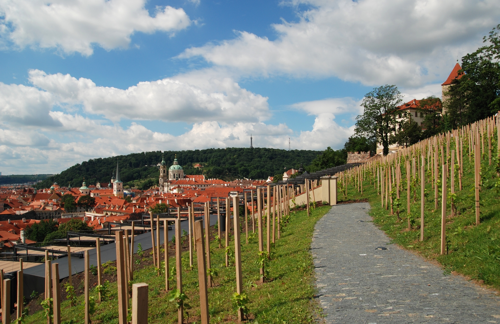 Svatováclavská vinice - northeast part of Prague Castle